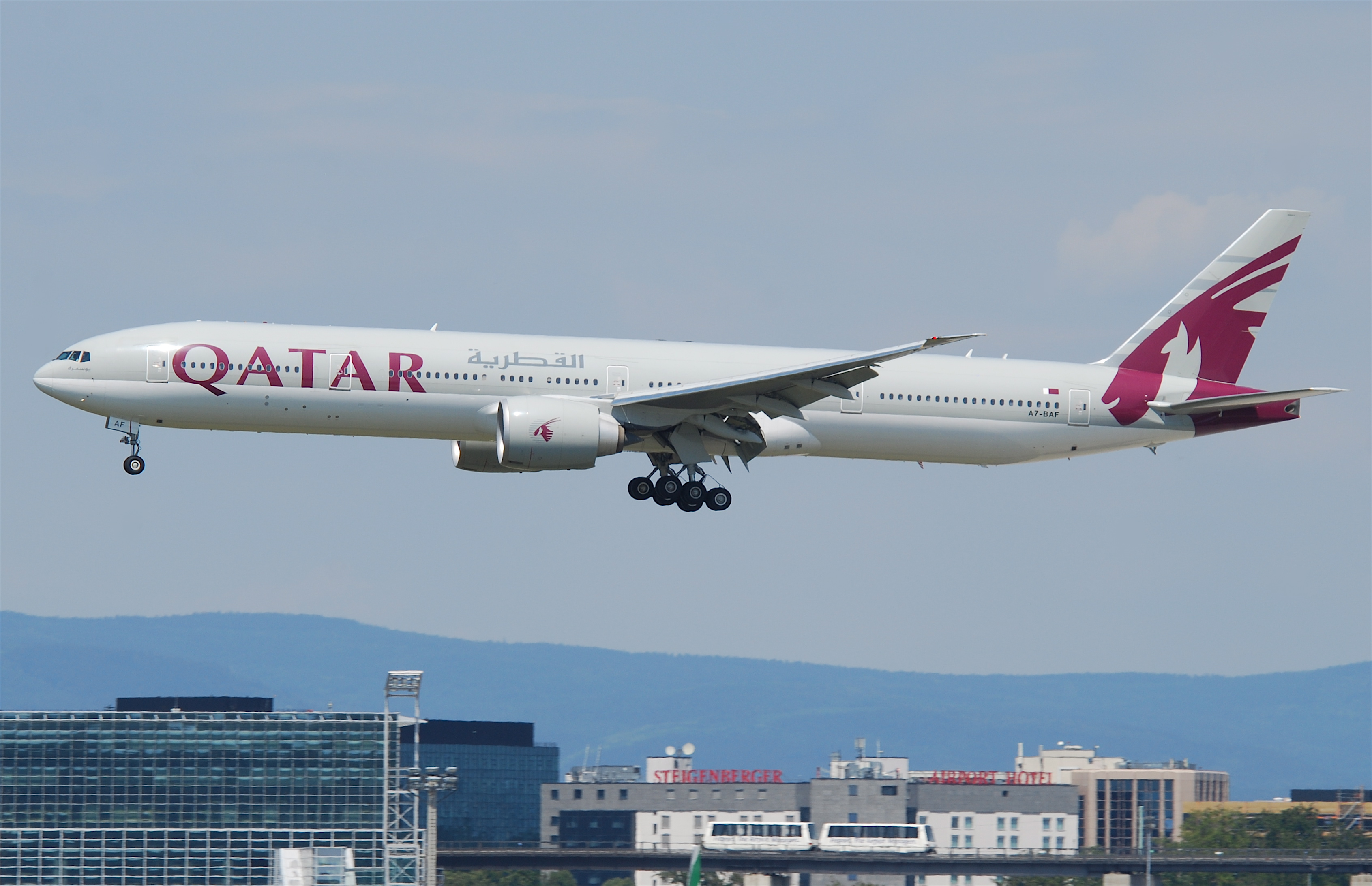 Qatar Airways Boeing 777-300ER (A7-BAF) landing at Frankfurt Airport